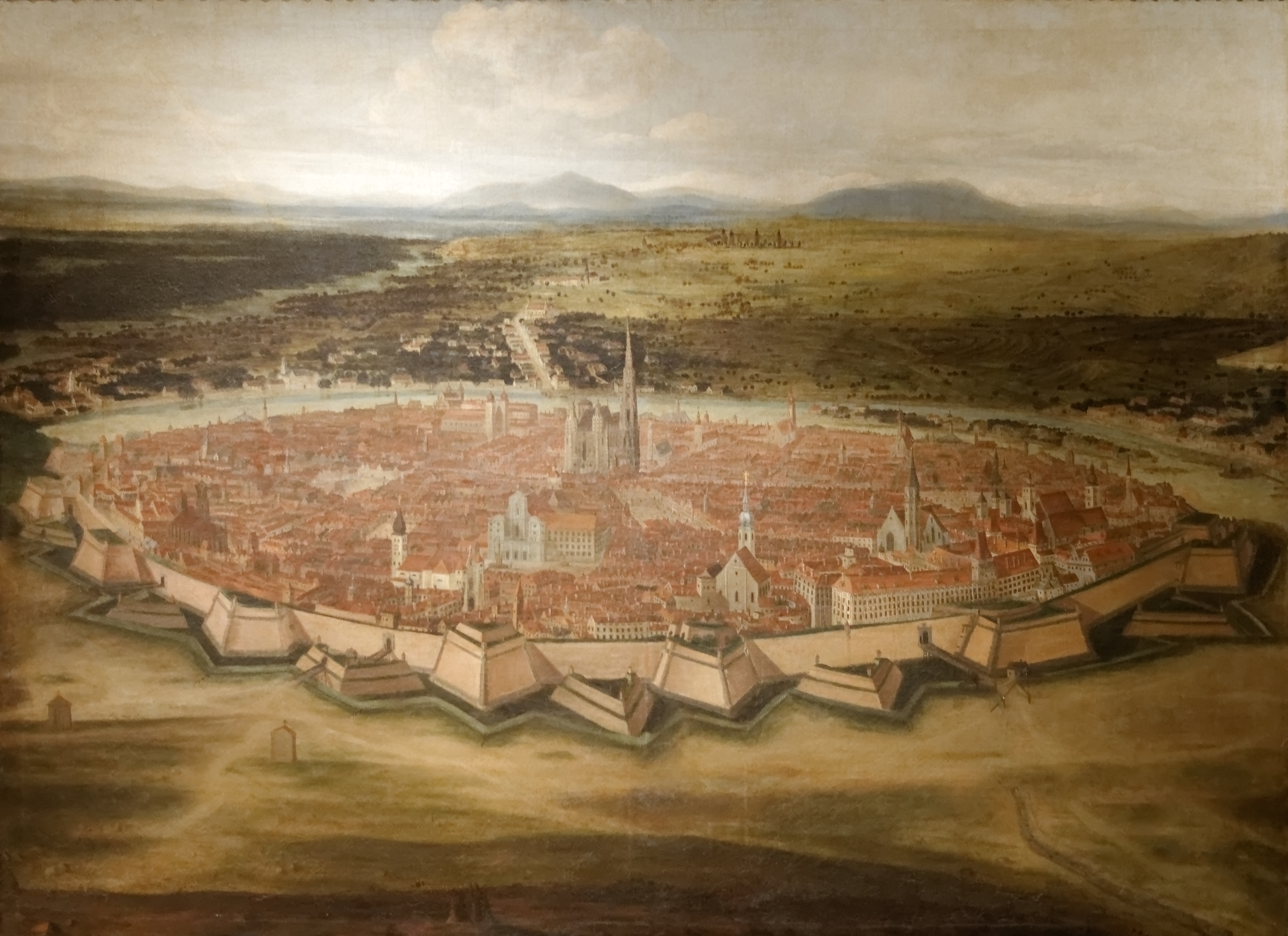 View of Vienna from Josephstadt, 1690. Domenico Cetto. Oil on cannevas. Whithin the collection of the city of Vienna by 1888. This was probably an official commission of the Vienna city council in 1689